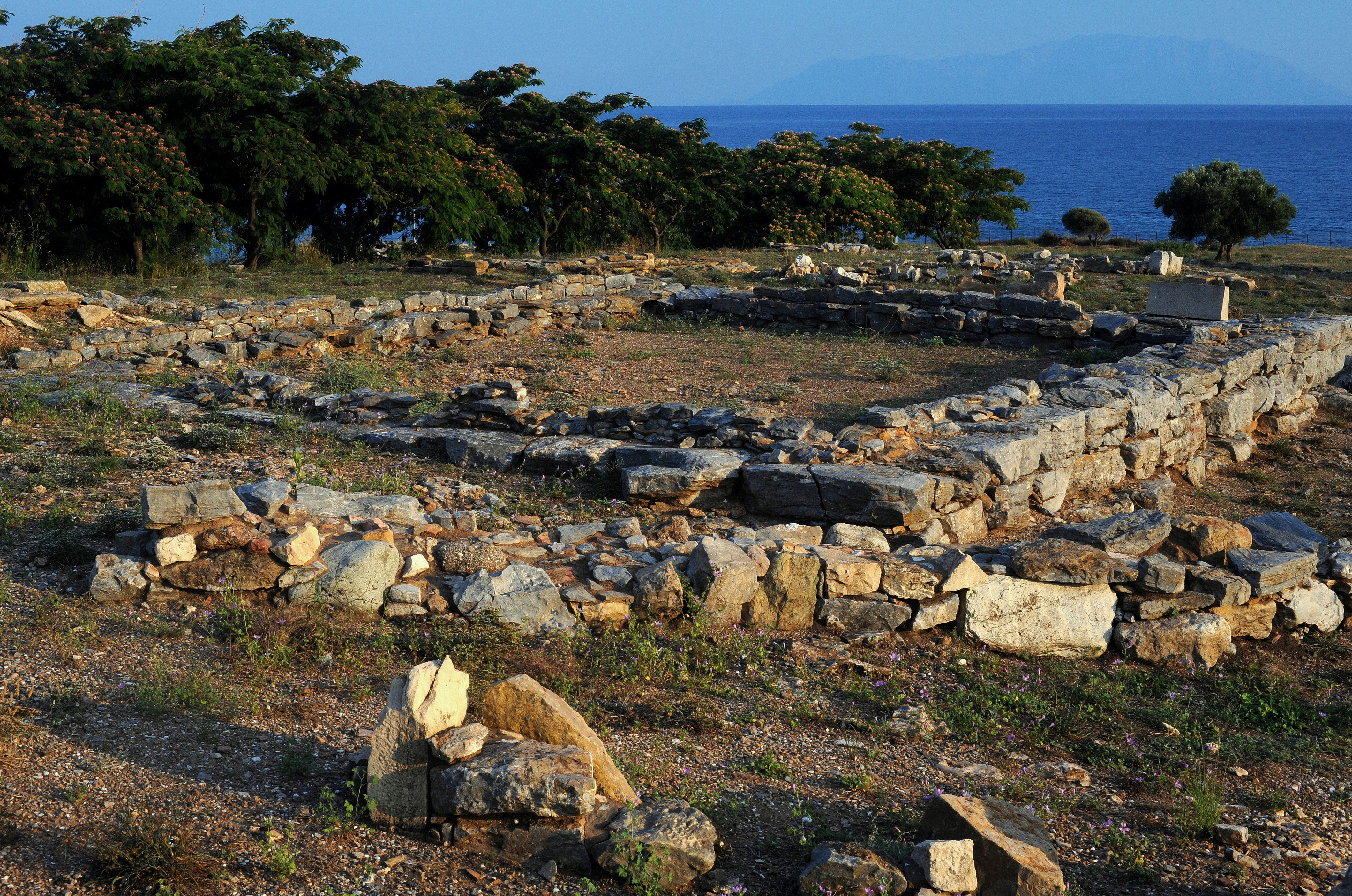 Mesembria archaeological place - Thrace, Greece: Apollo temple, end of the 6th century BC.